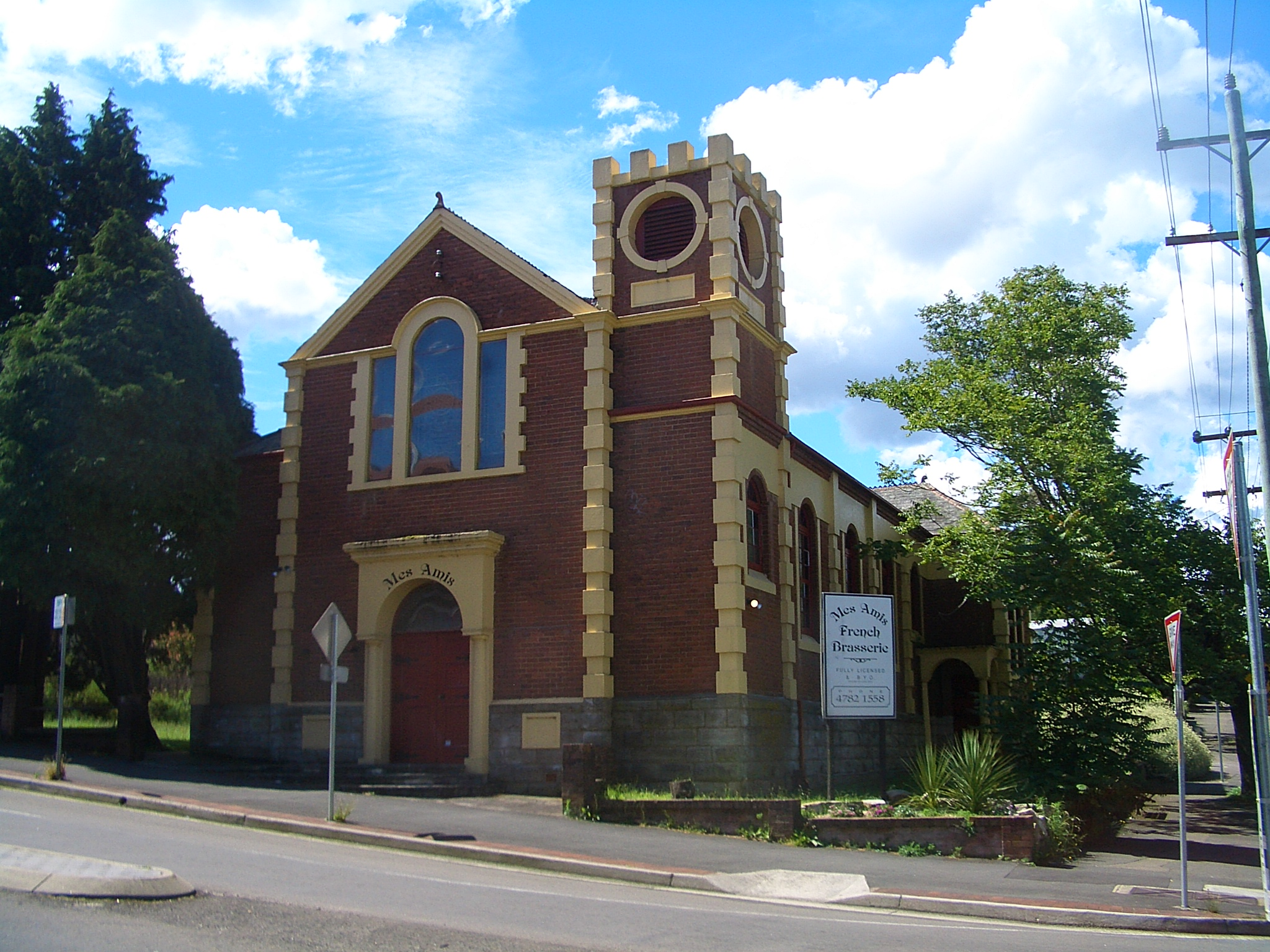 A French restaurant in Katoomba, in a building that must have been originally built for a church.